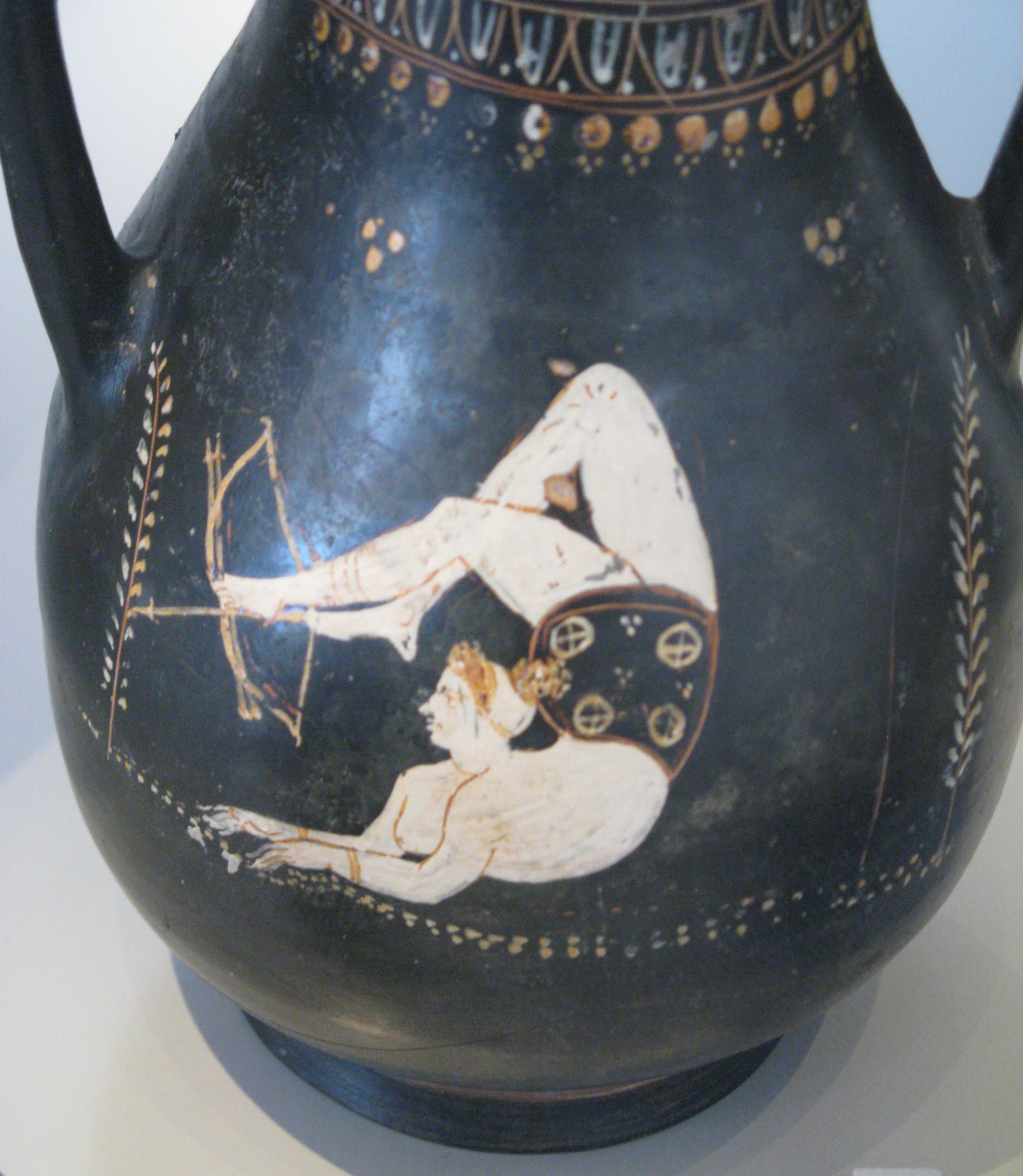 Female acrobat shooting an arrow with a bow in her feet; Gnathia style pelikai; 4th century B.C.